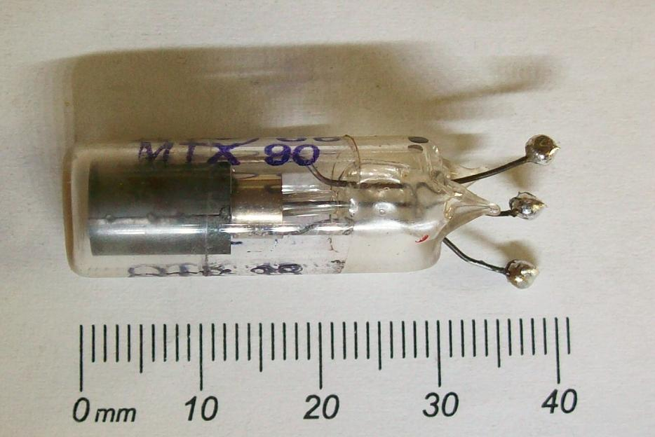 Relais tube (cold cathode thyratron) MTX90 (Soviet Union 1966)